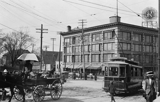 Rideau Street, corner of Mackenzie Avenue, ca. 1912.